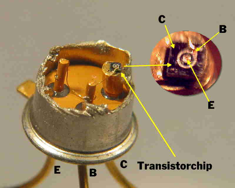 A small transistor opened to see internals: The chip is mounted on a pedestal to be at the same elevation as the other terminals. Manufacturer unknown. Sold unstamped as "Out-of-Spec" (cheap) quality. Technology of the 1980's (1970's ?)